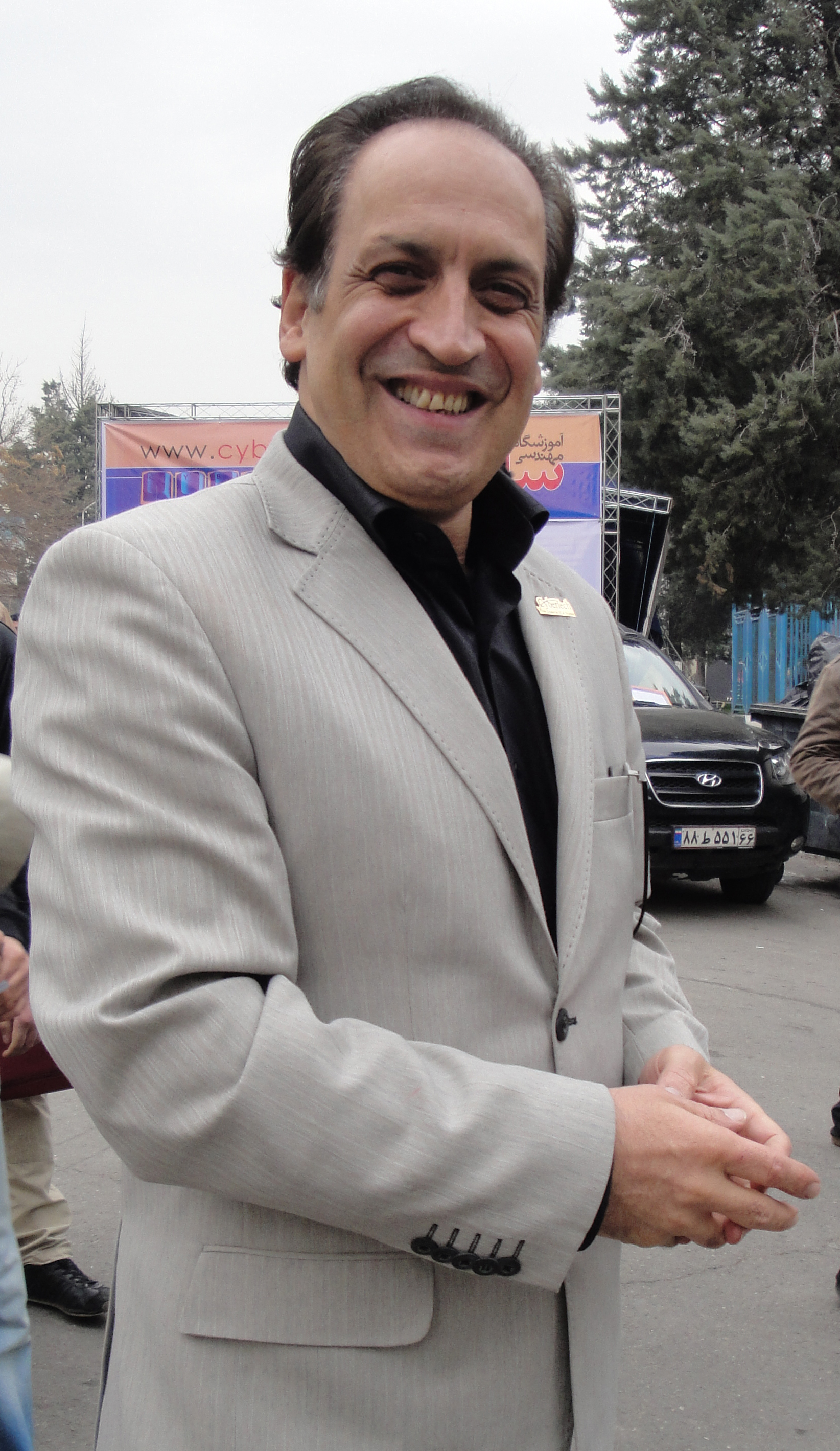 Bahman Hashemi is a Persian broadcaster in Islamic Republic of Iran Broadcasting.